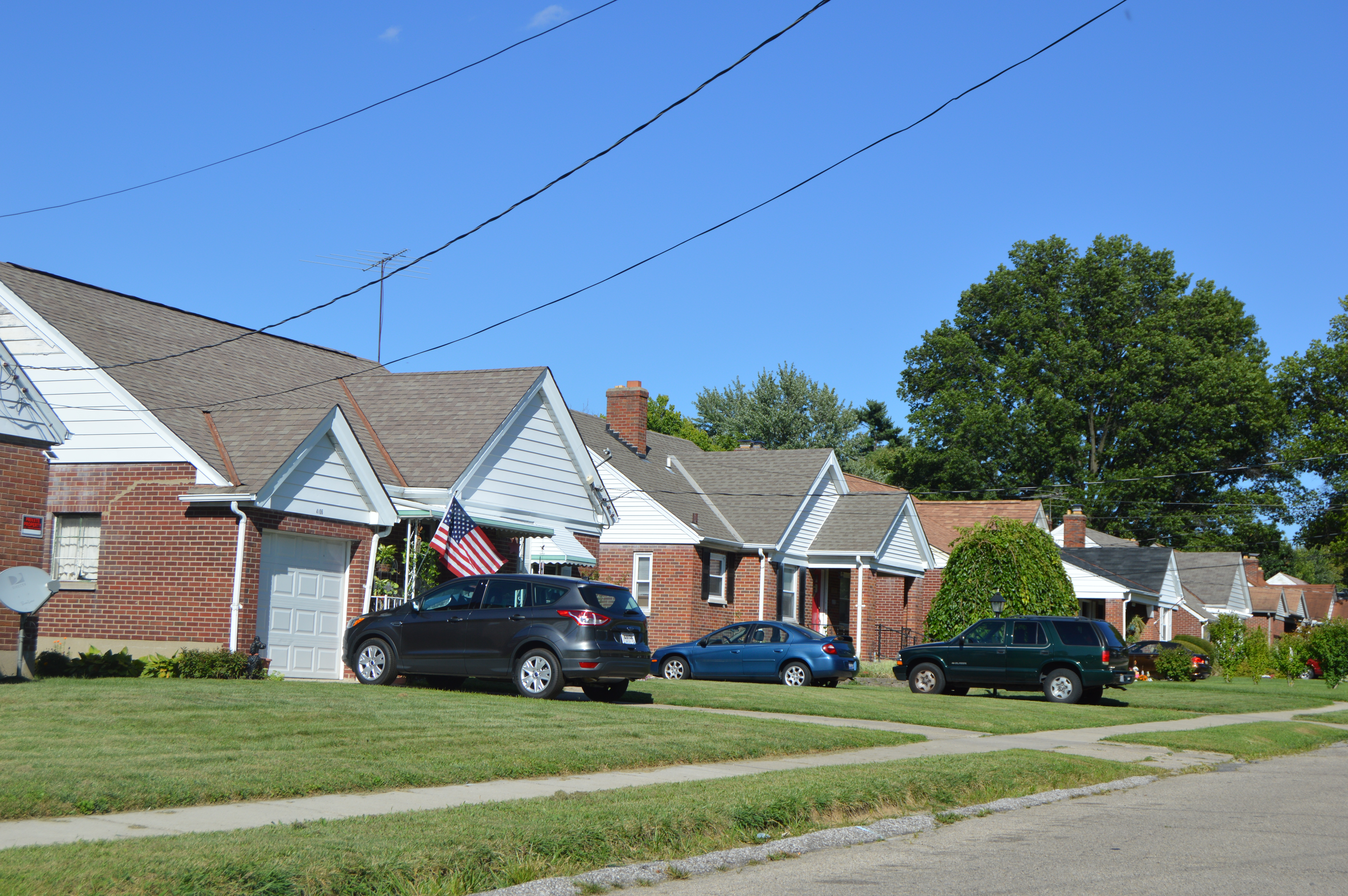 Houses on the northern side of Orchard Lane just east of the Blue Ash Road intersection in Deer Park, Ohio, United States.